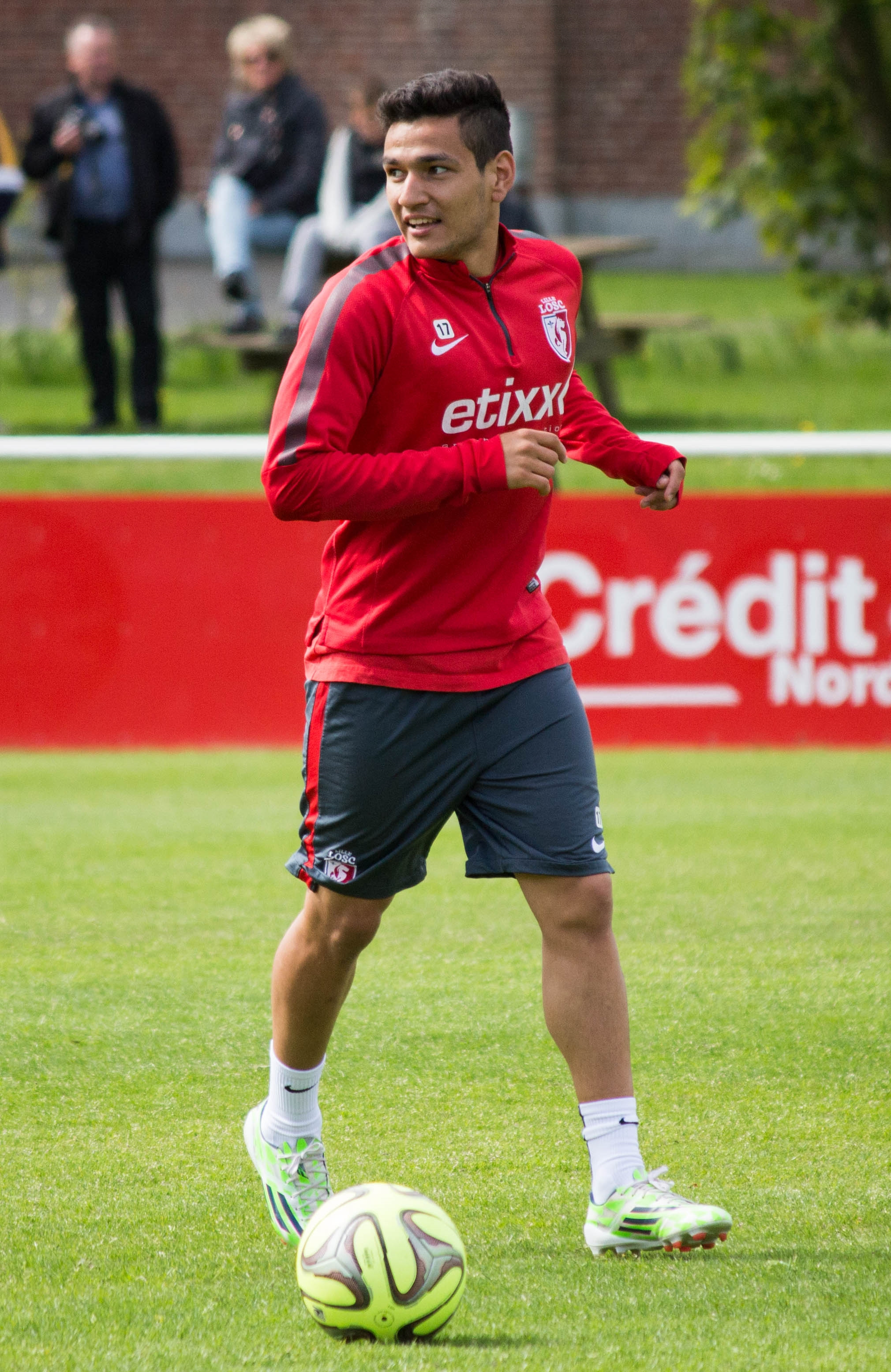 Marcos Lopes in training with Lille OSC in 2015.